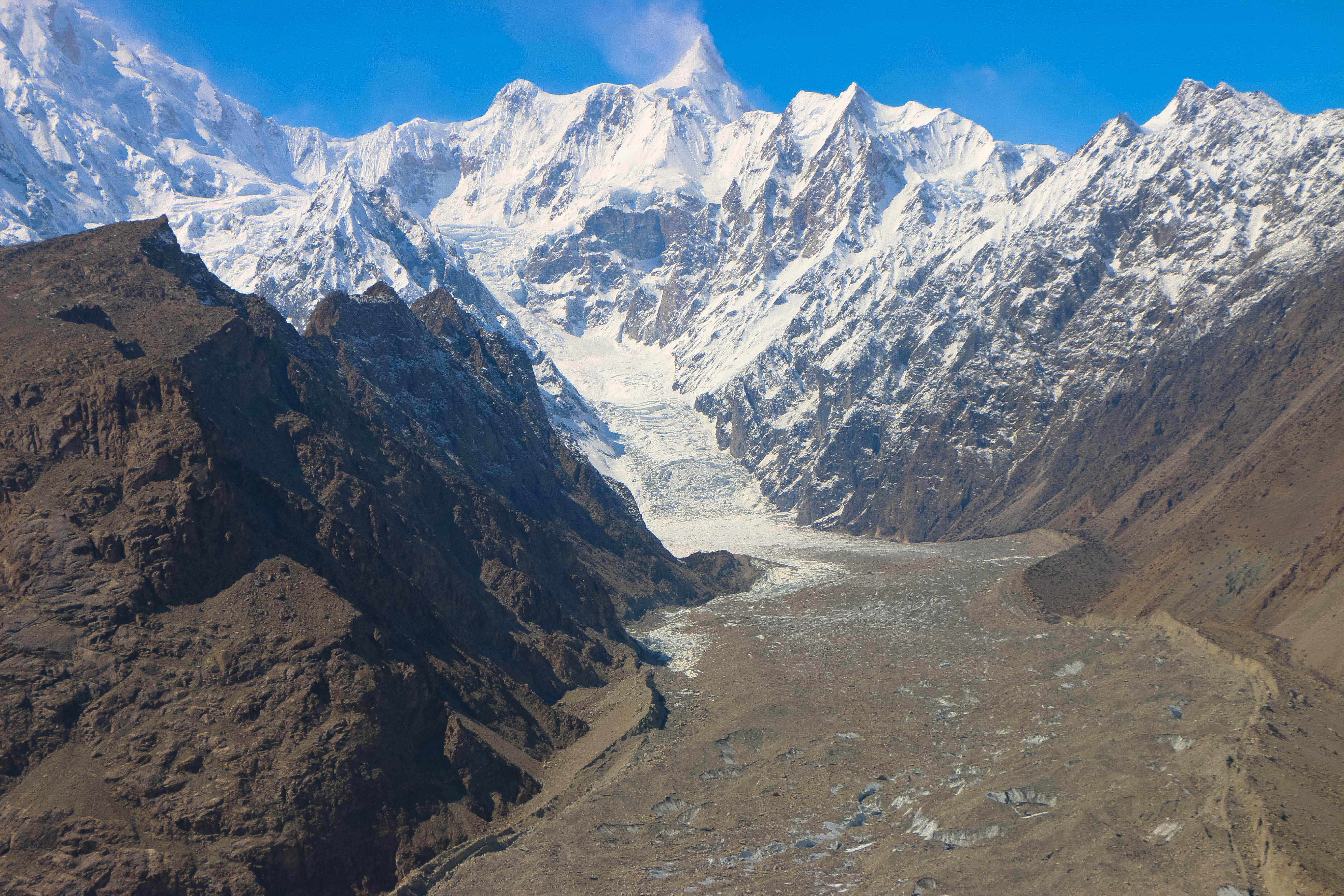 A beautiful photo of Ghulkin Glacier captured from Bell 412 EP helicopter. The Glacier comes from the north-eastern slopes of Ultar Sar. The sharp peak in the background is Shispare.